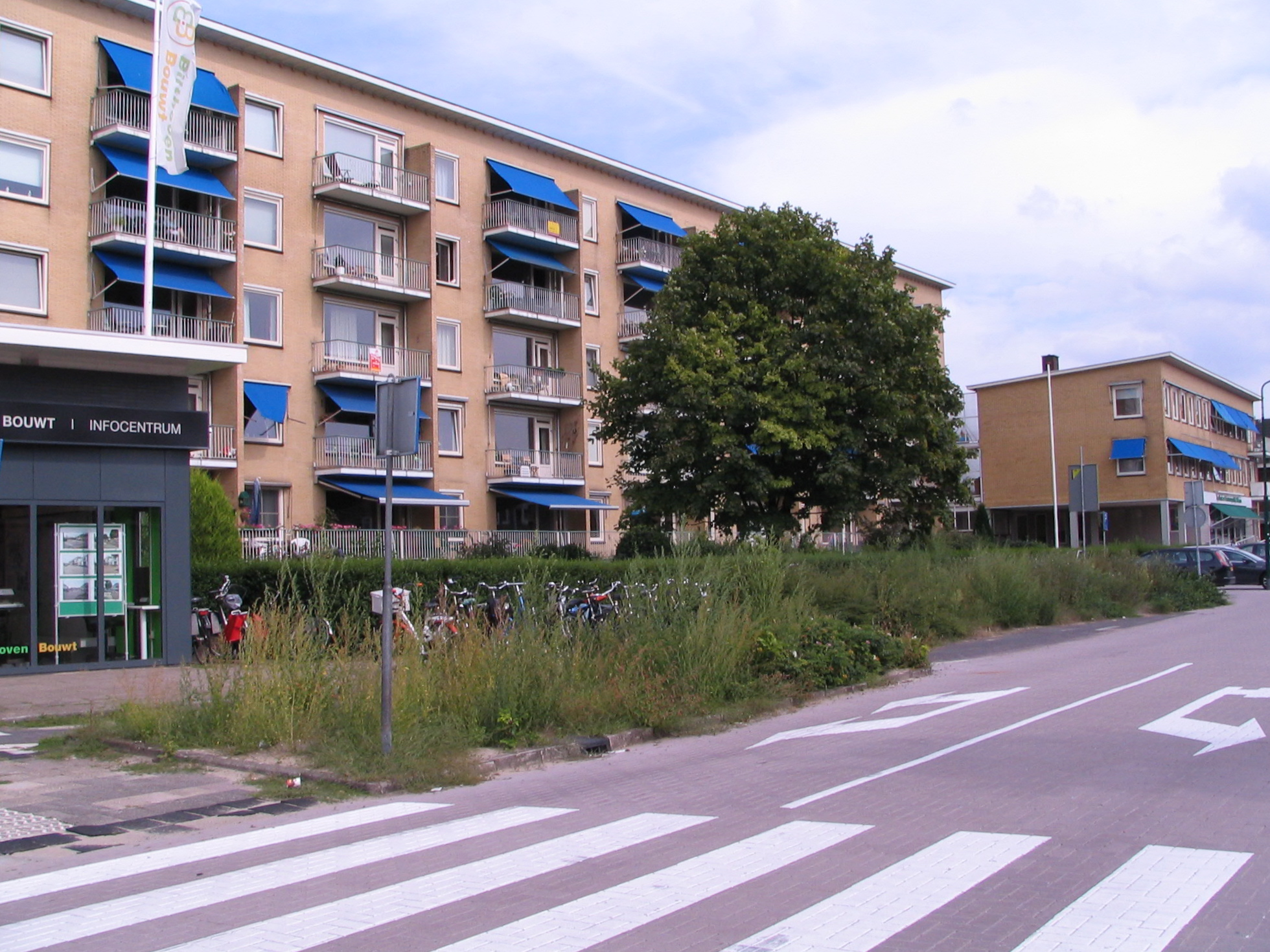 Juliana Apartment Building, Julianalaan 3 Bilthoven (gemeente De Bilt). Date: Augustus 2012. Architect: Willem Dudok.